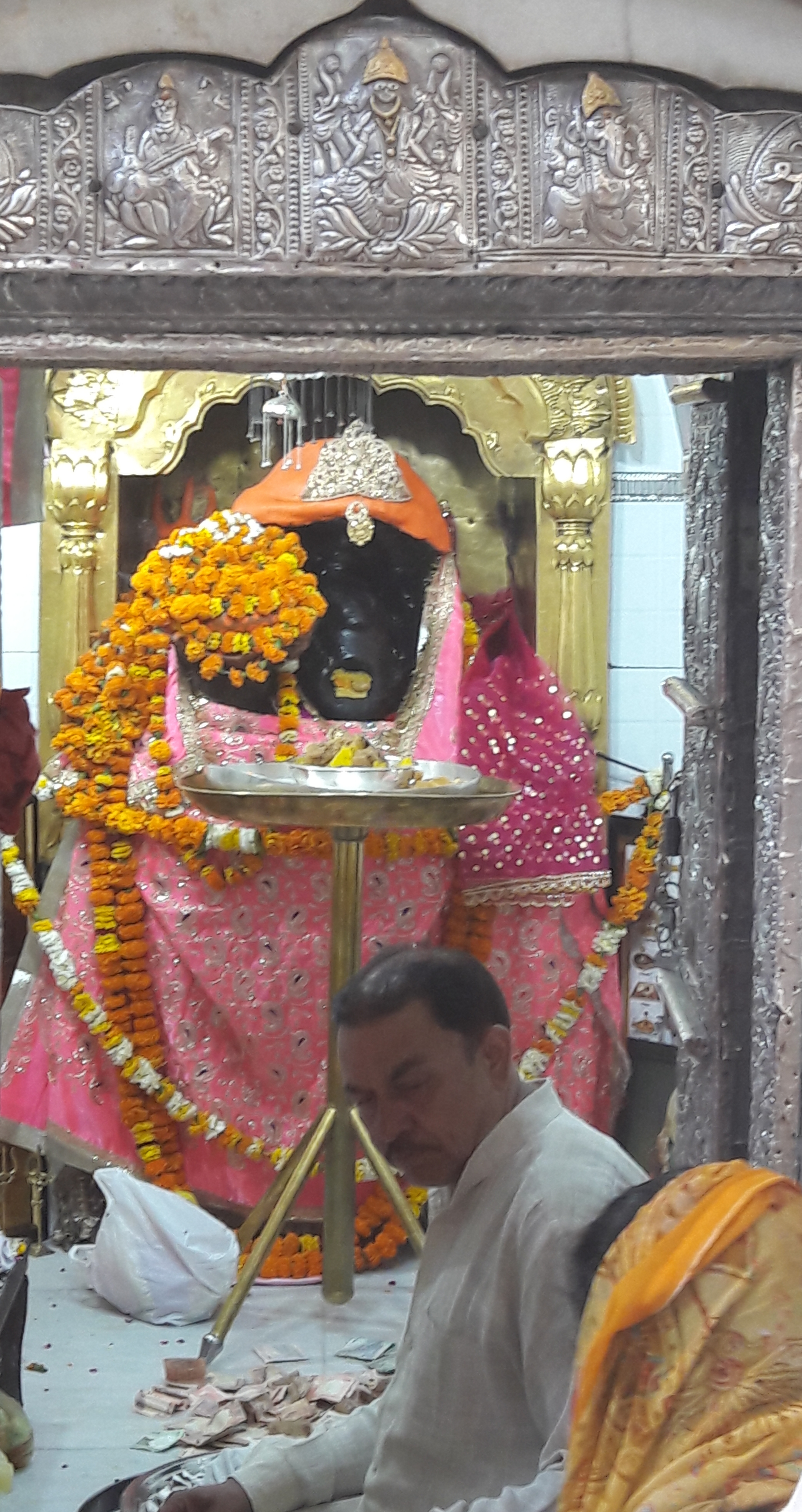 Darshan of Kalimaata